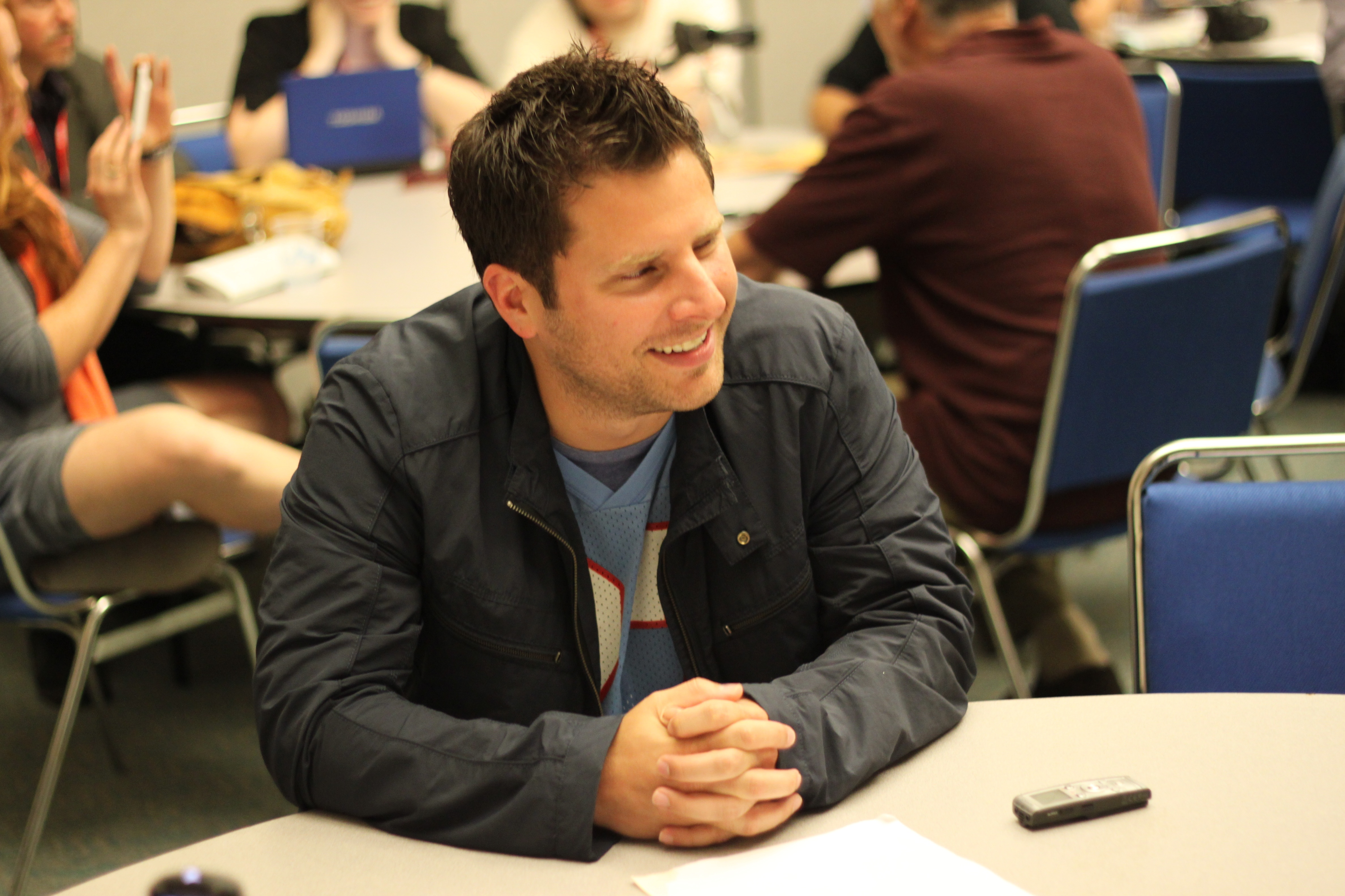 James Roday